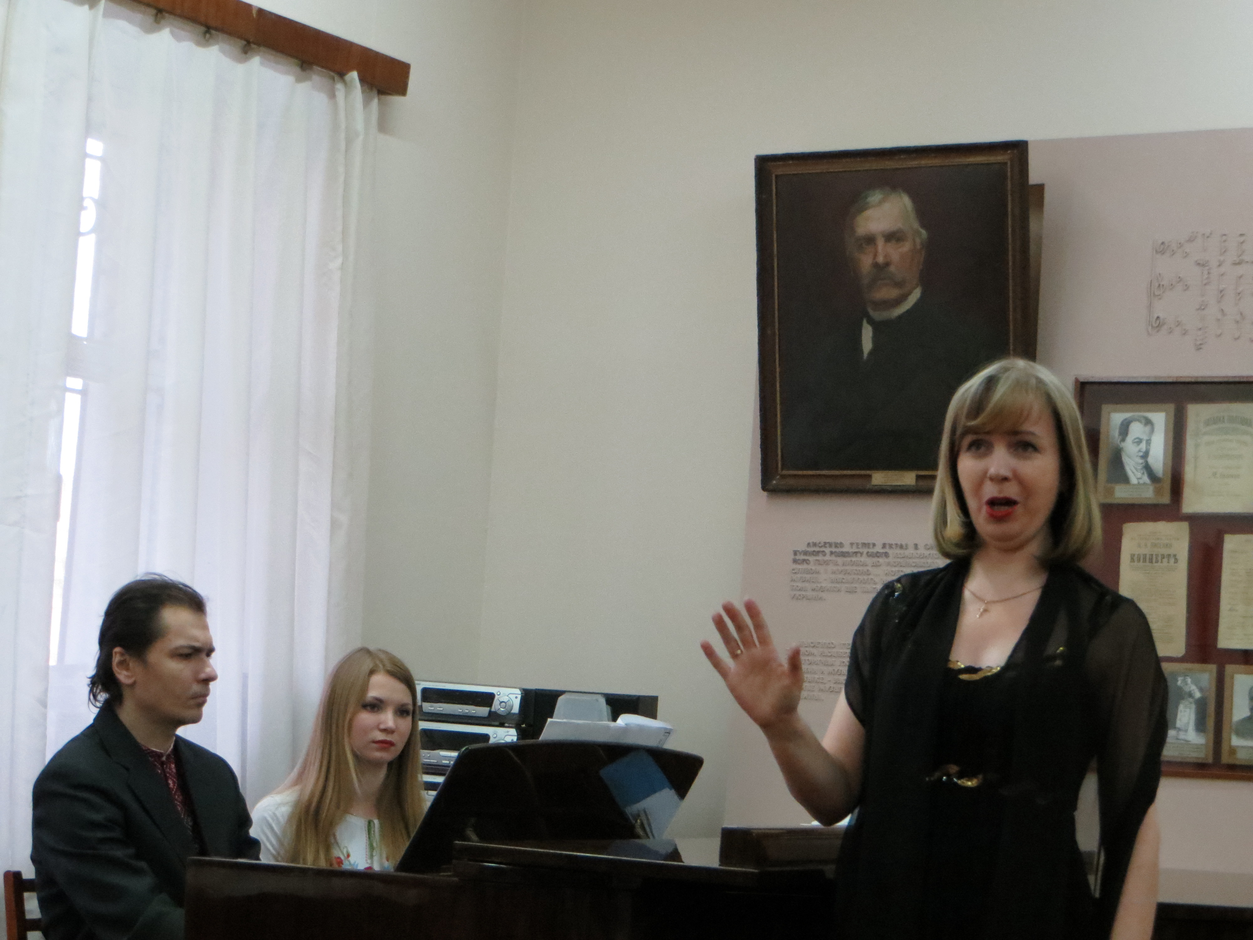 Photo from the Mykola Lysenko and his contemporaries concert